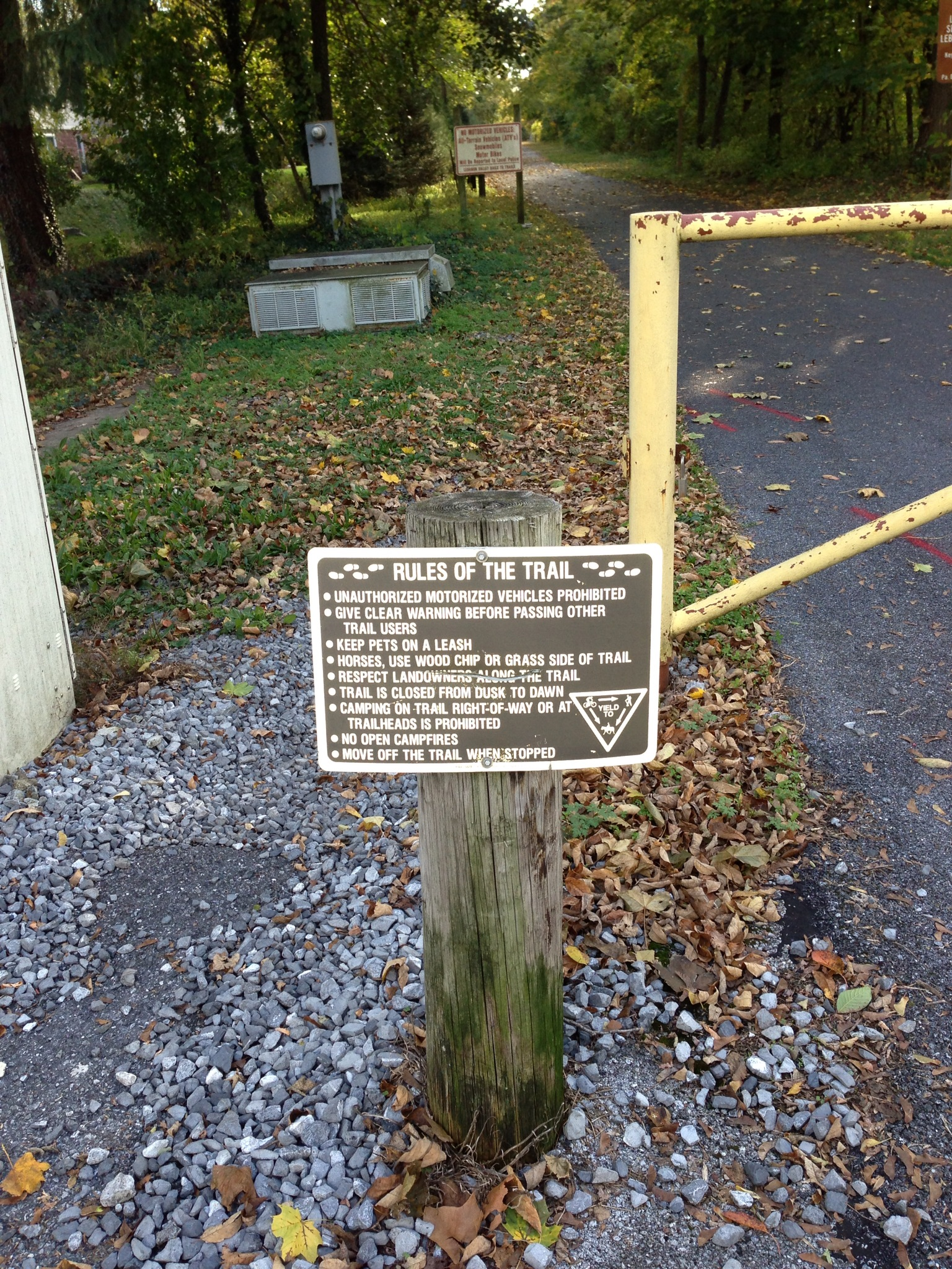 LVRT Trail rules